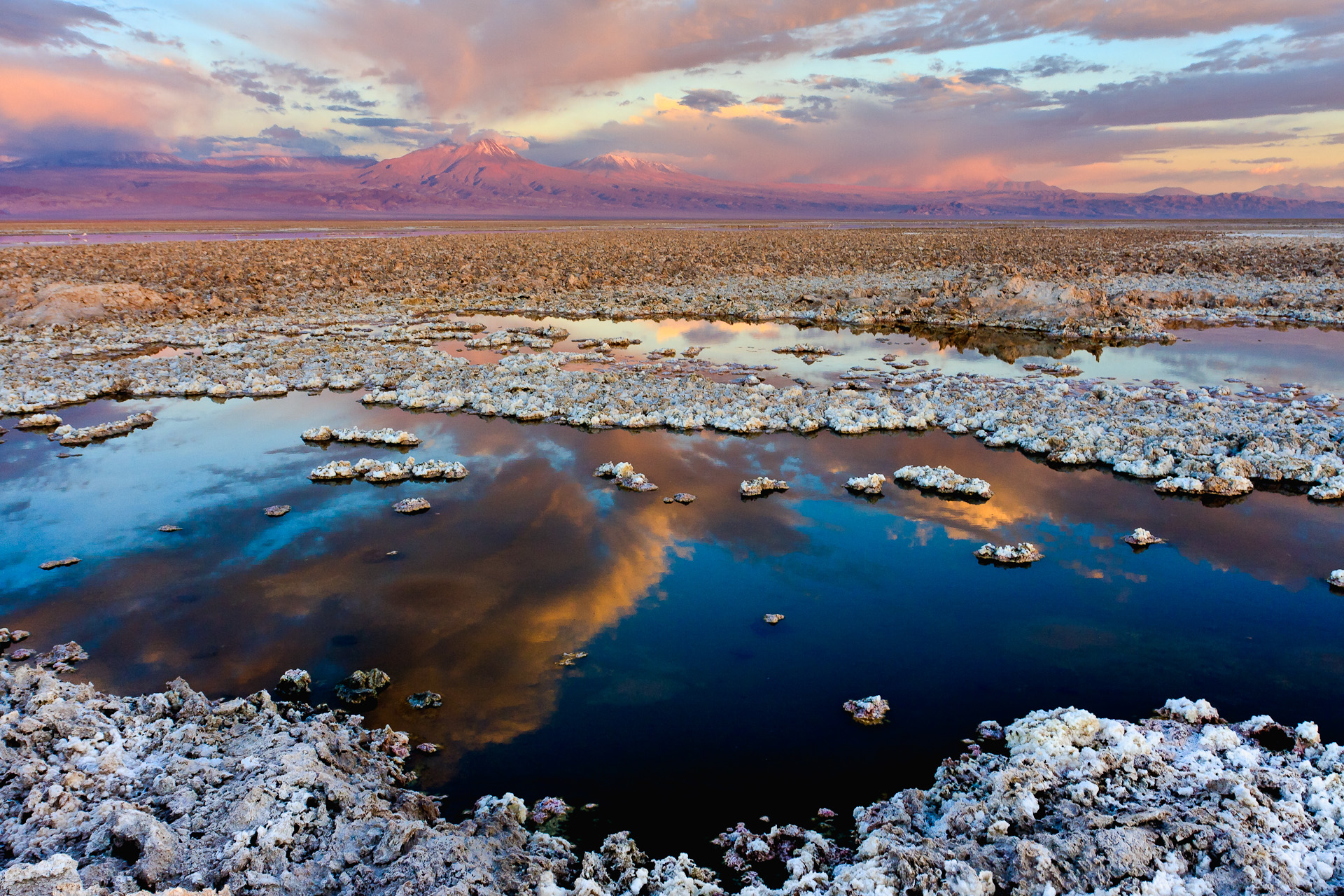 The Atacama Dry lake, in Chile. At the horizon, the Tumisa, Lejía and Miñiques volcanoes.